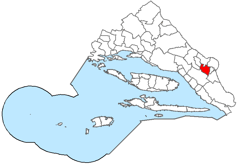 Position of municipality inside Split-Dalmatia County